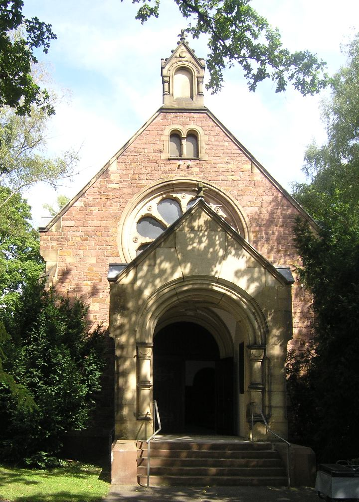 Jewish cemetery synagogue in Karlsruhe